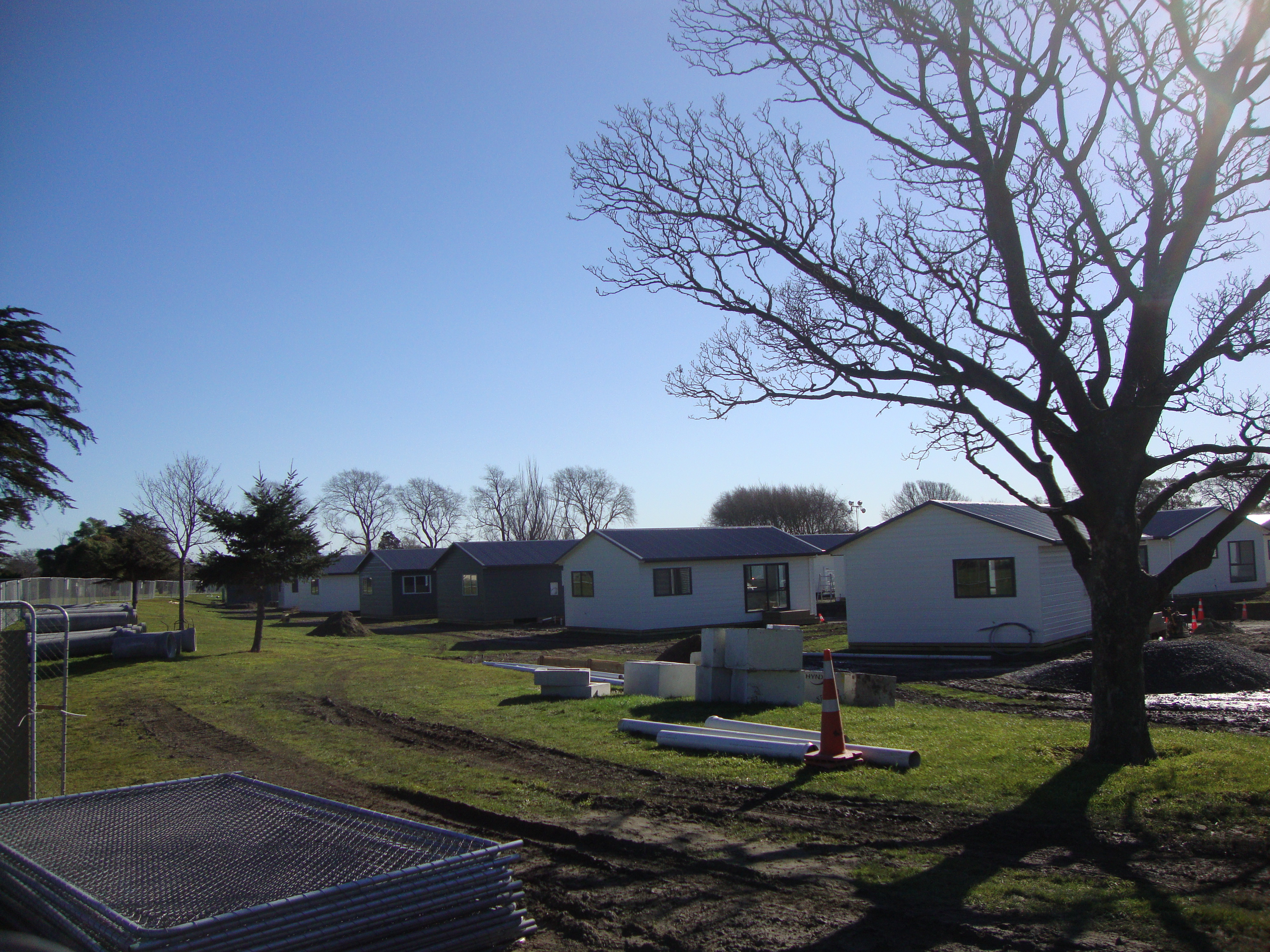 Temporary housing in Linwood Park, Christchurch (a legal reserve where you would normally not be allowed to build).